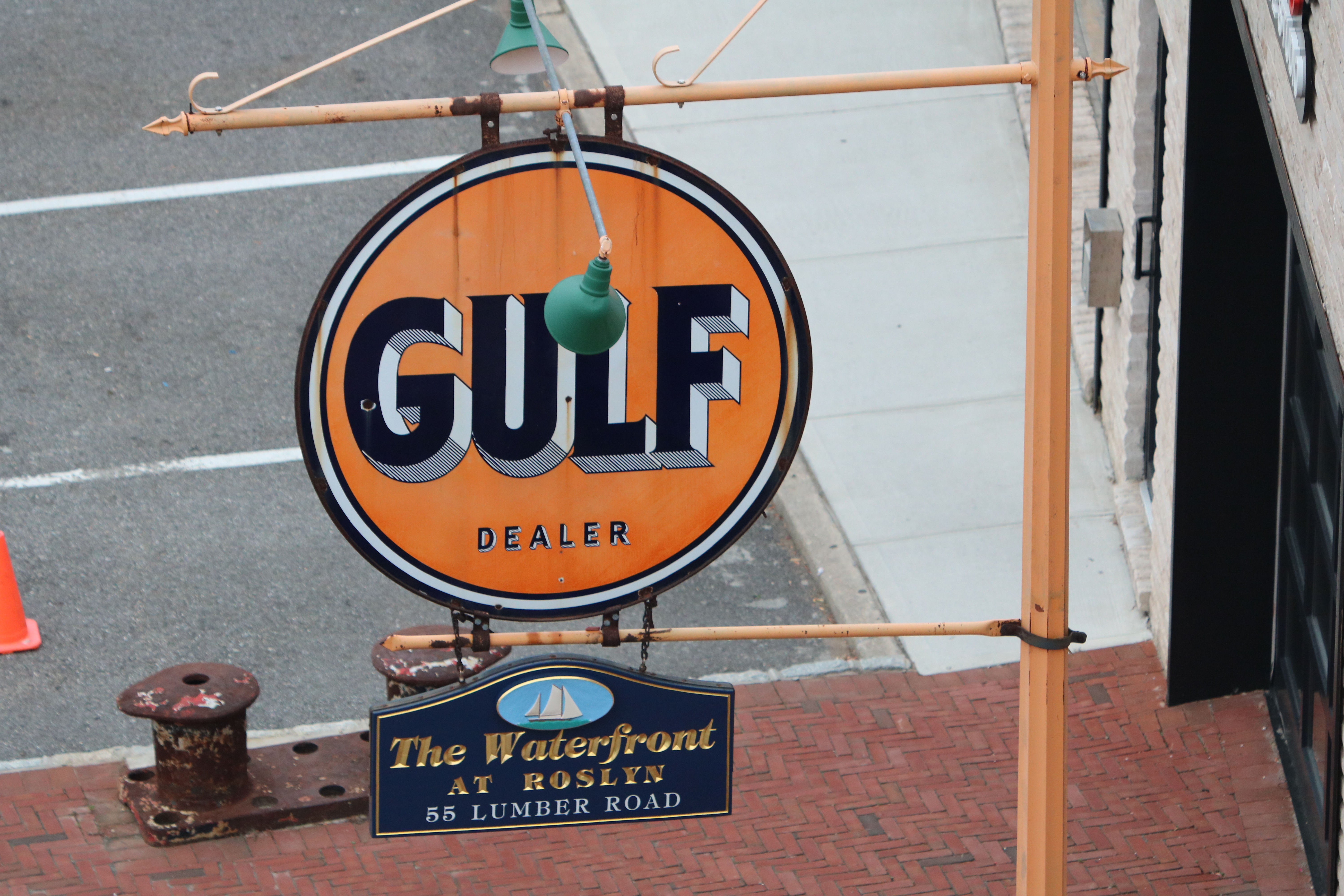 Gulf Dealer and Waterfront at Roslyn signs, Roslyn